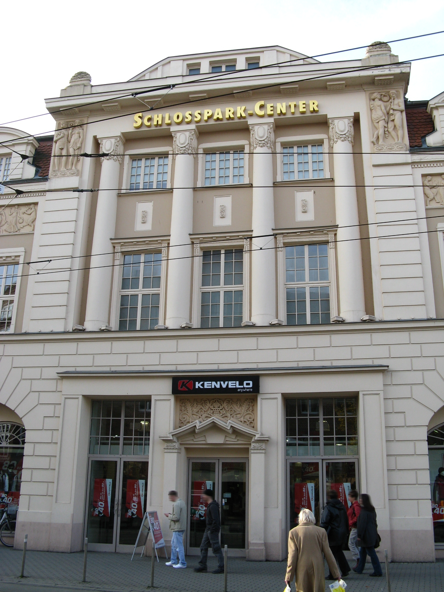 Square Marienplatz in Schwerin, Mecklenburg-Vorpommern, Germany